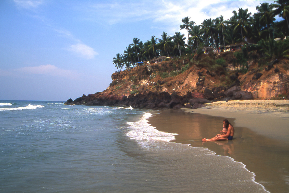 The beach in Varkala, Kerala State (India) Varkala Beach i Kerala, Indien Fotograferad av Henryk Kotowski i januari 2005